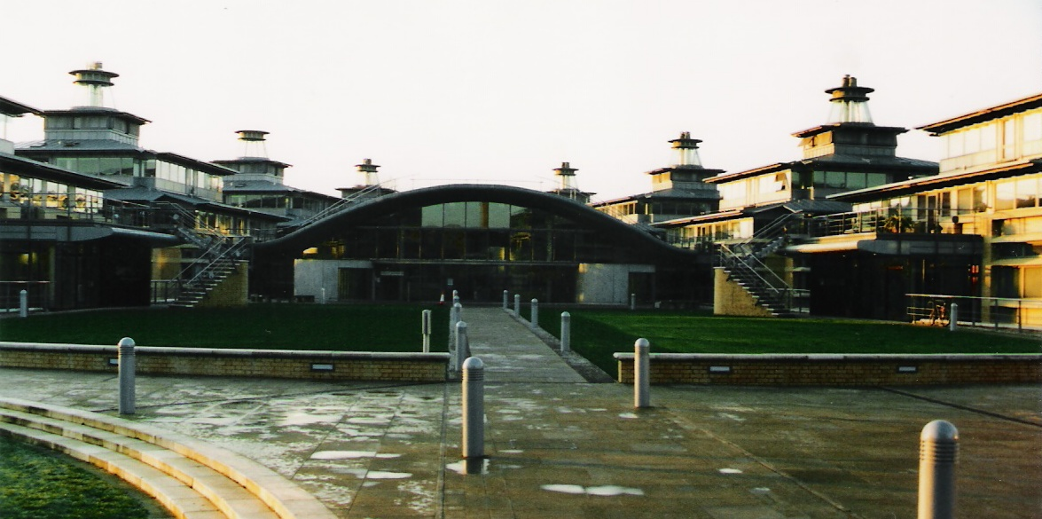 The University of Cambridge Centre for Mathematical Sciences, housing the Faculty of Mathematics. (Close to the Isaac Newton institute) Photo by Bob Tubbs in 2003.